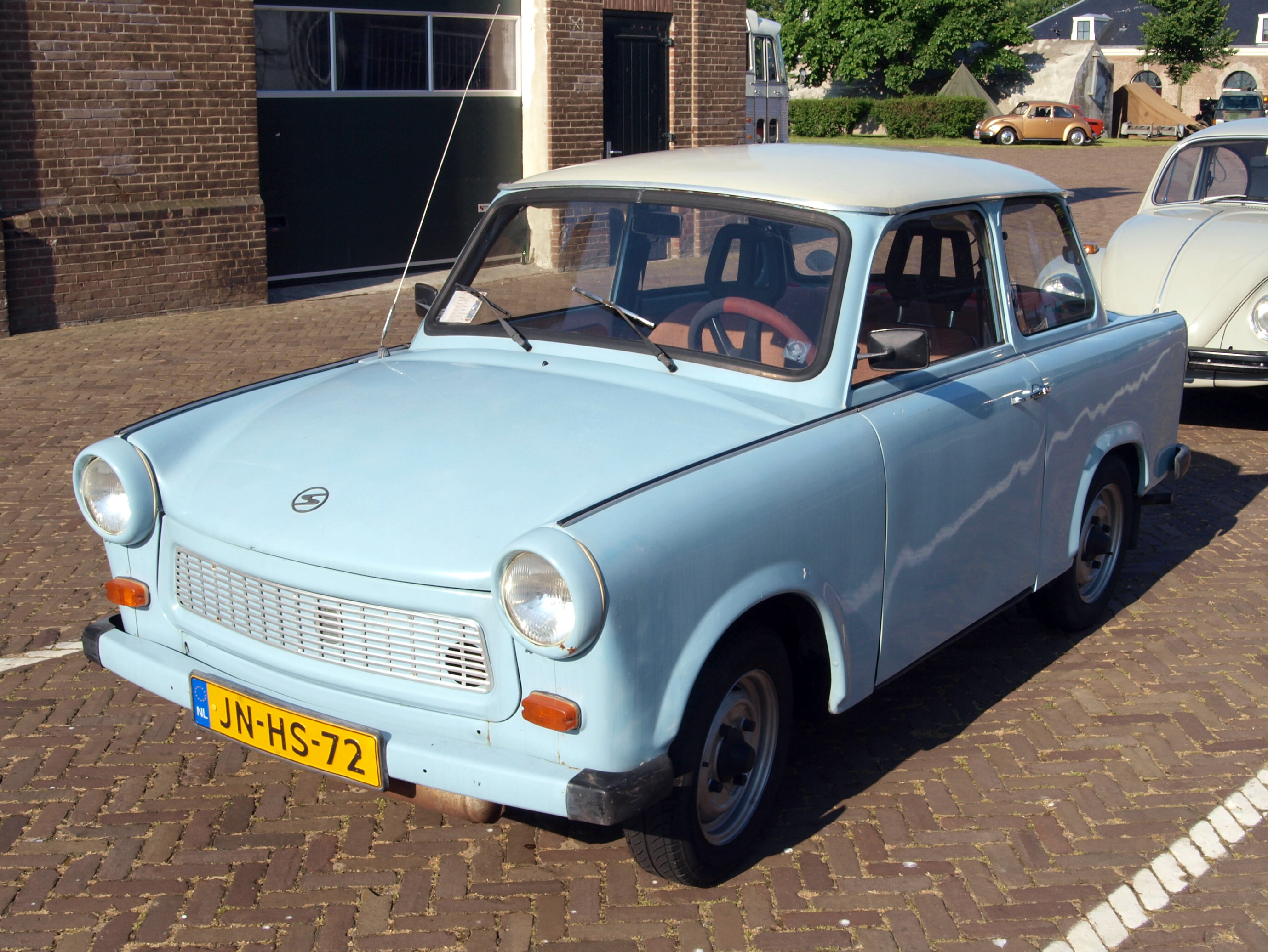 Photographed at Den Helder, The Netherlands. OLYMPUS DIGITAL CAMERA